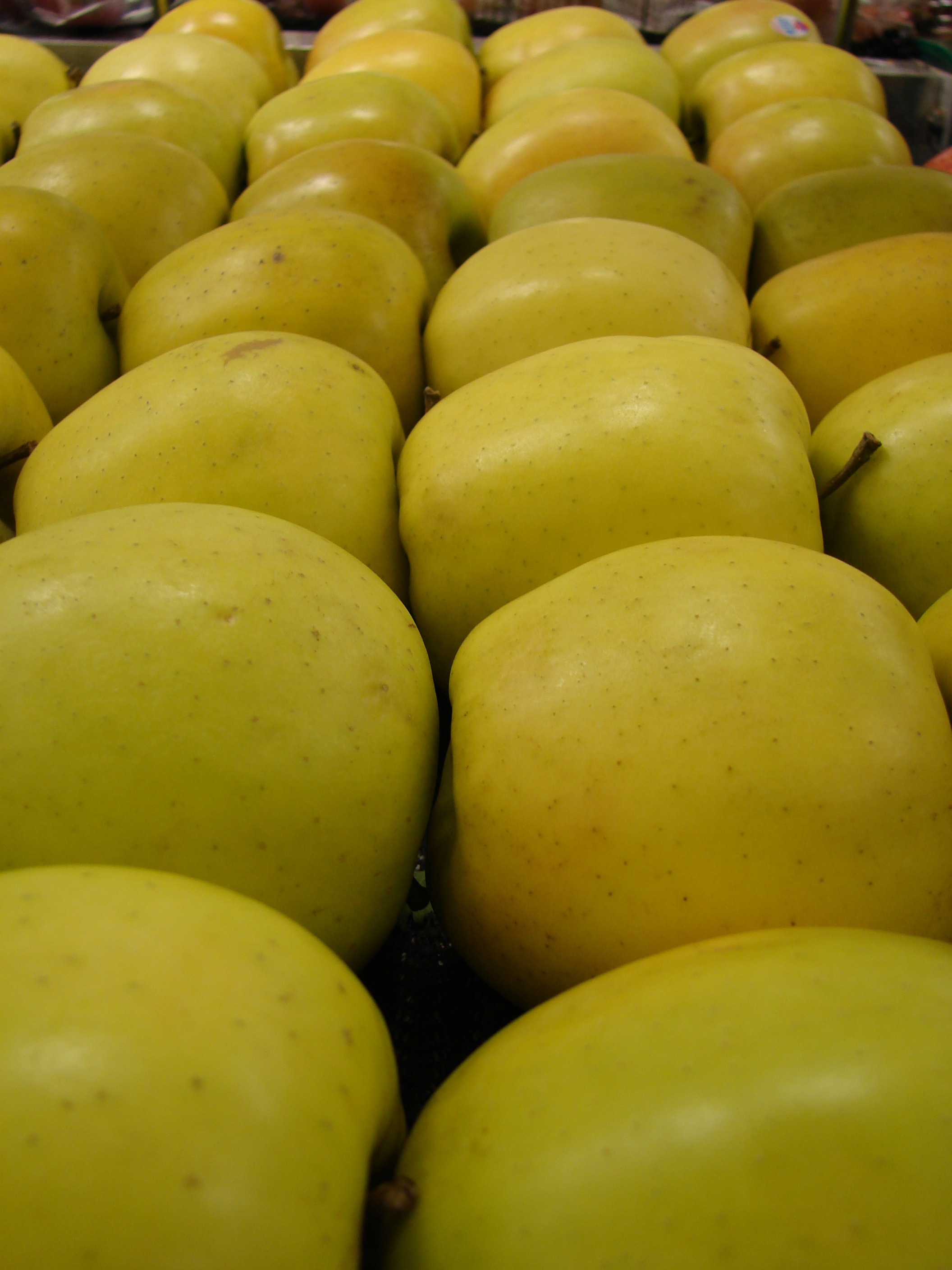 Malus pumila (fruit Golden Del variety). Location: Maui, Foodland Pukalani